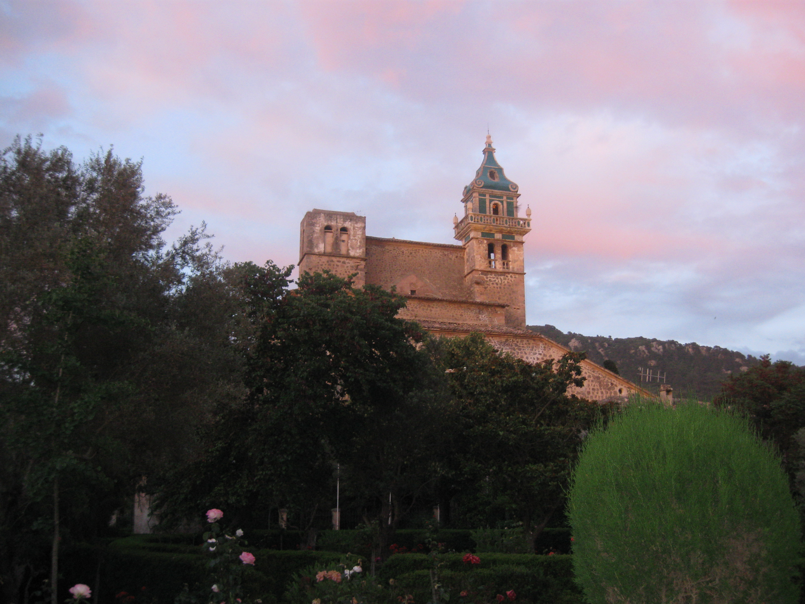 Royal Charterhouse of Valldemossa, Majorca